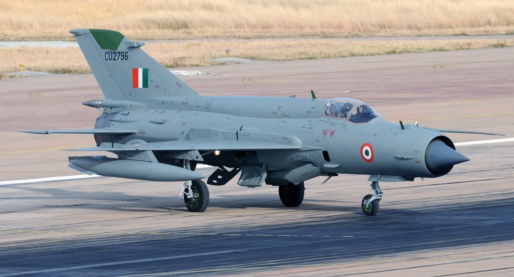 Mig21 Bison taken by Jyotirmoy Moulick